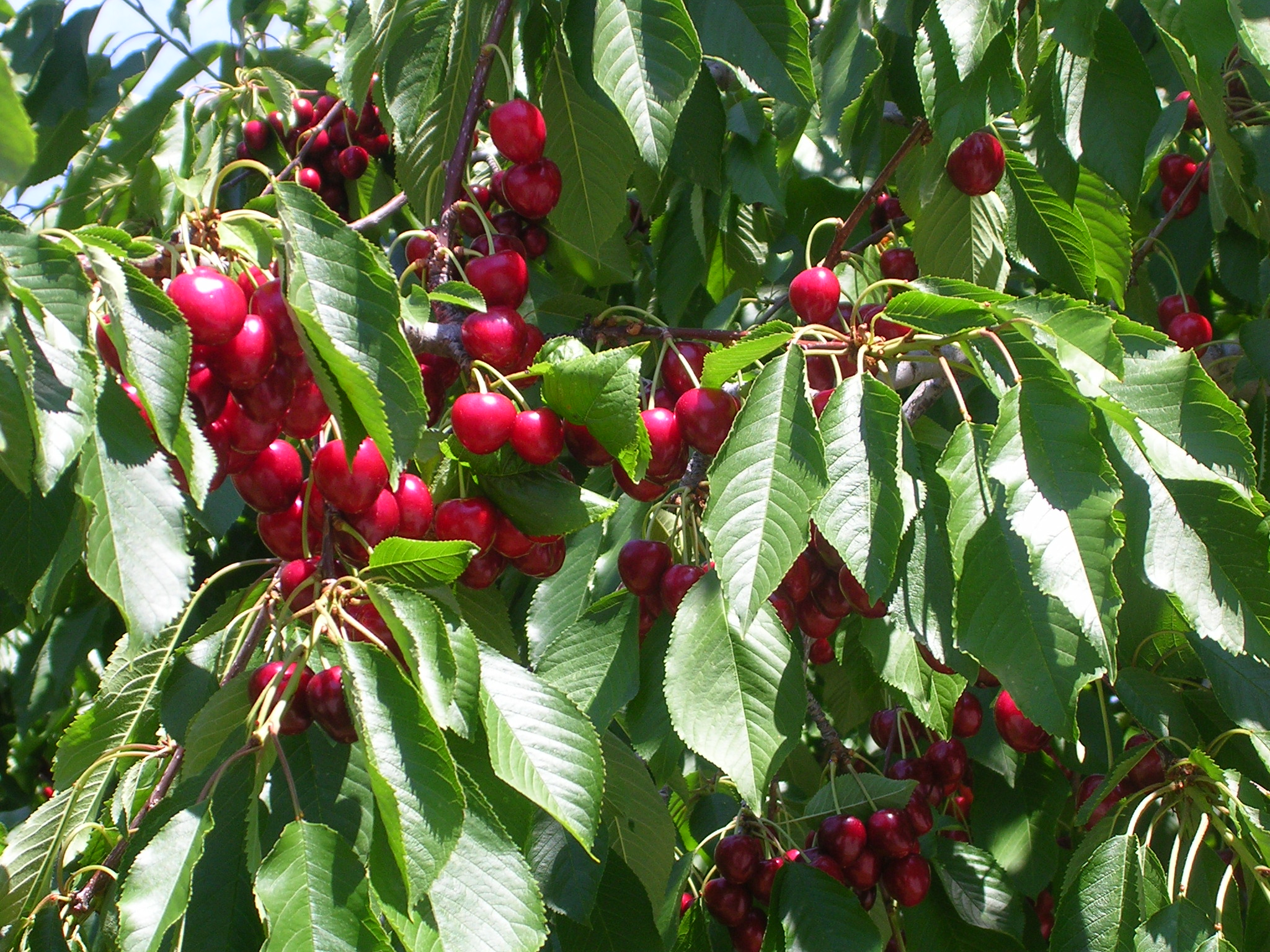 Cherry tree branches with cherries in Summerland, British Columbia